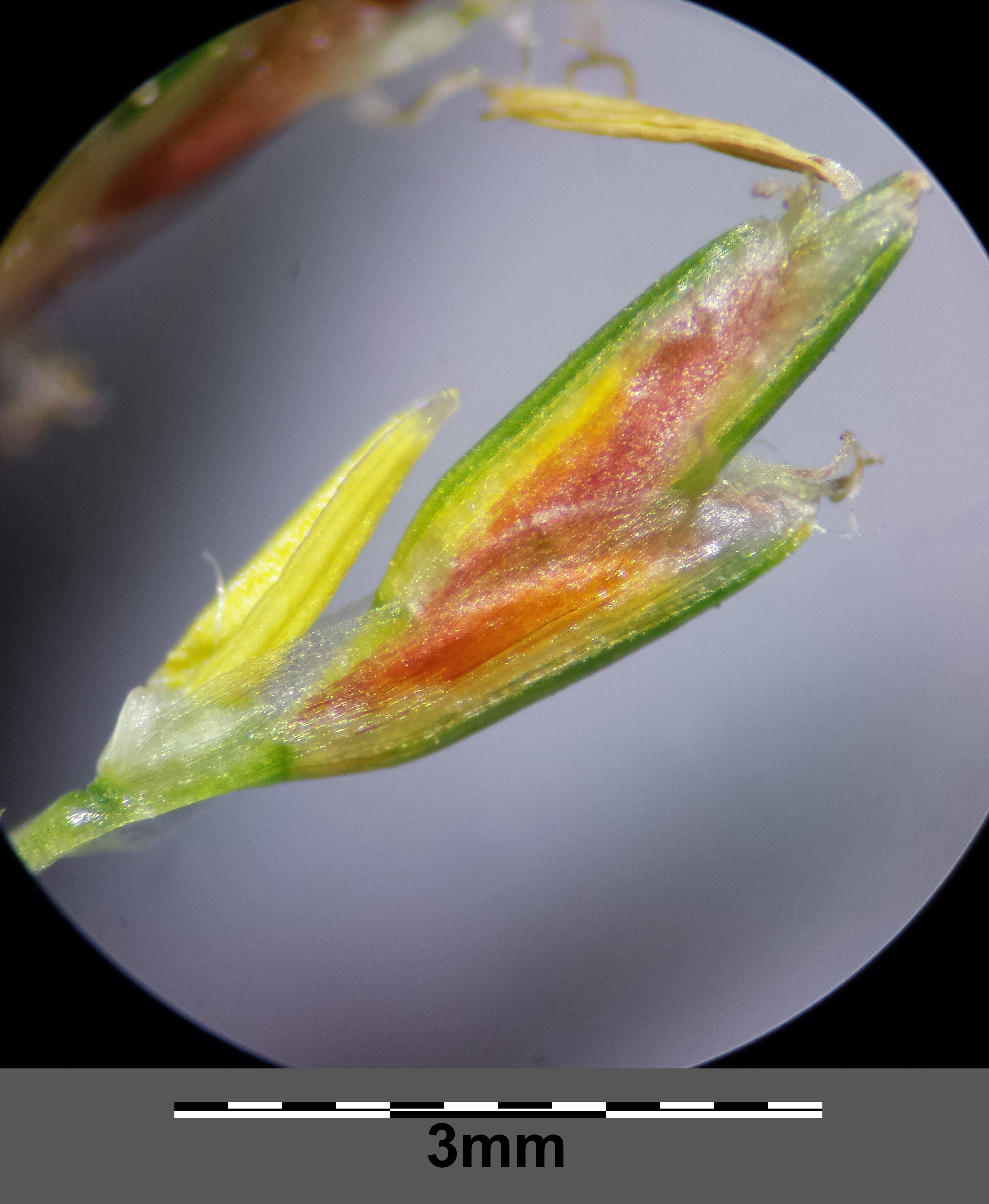 Spikelet with broadly winged rhachilla Taxonym: Cyperus longus subsp. longus ss Fischer et al. EfÖLS 2008 ISBN 978-3-85474-187-9 Location: Josef-Ruston-Gasse in Jedlesee, Vienna-Floridsdorf - ca. 160 m a.s.l. Habitat: wayside